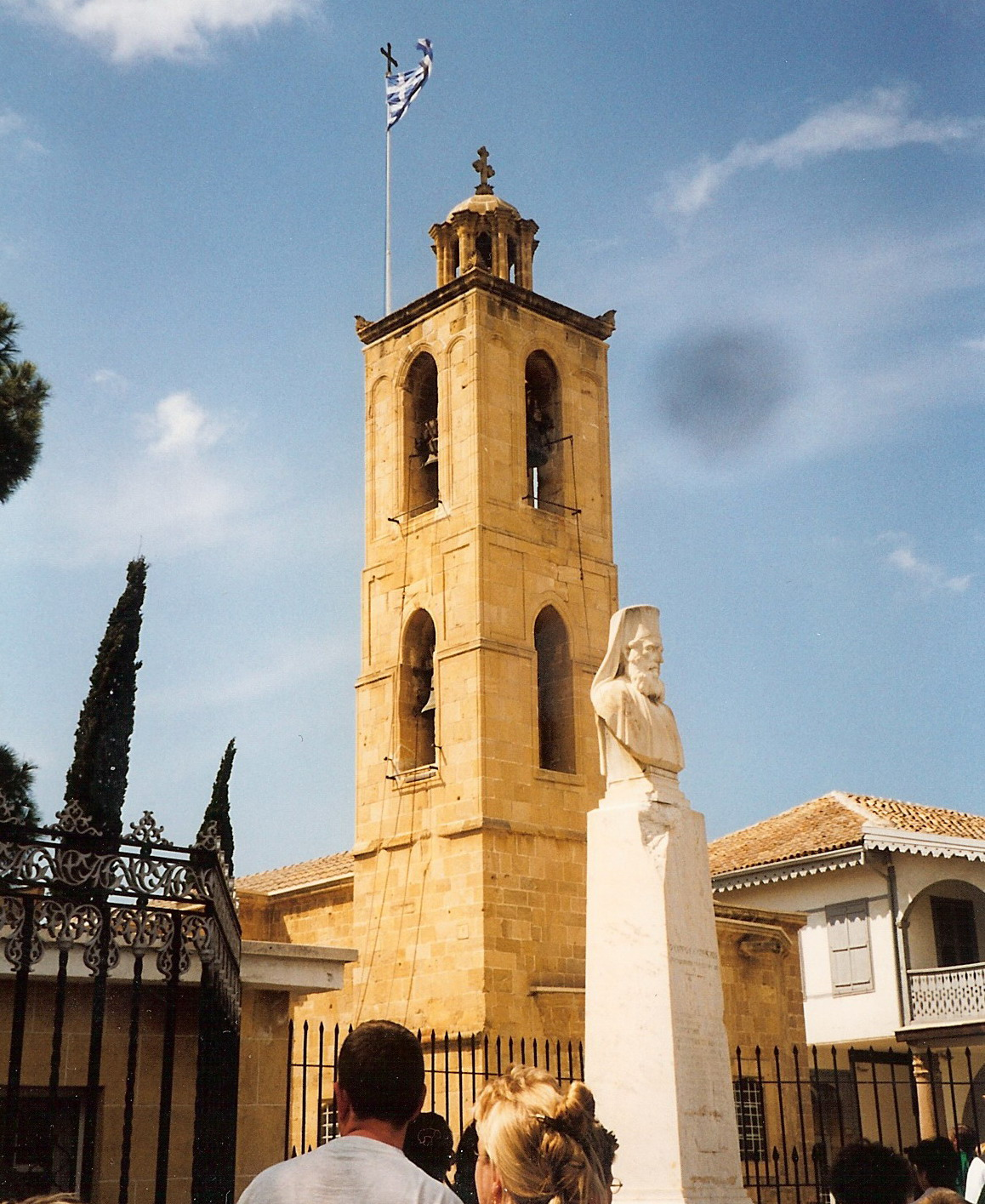 The Agios Ioannis church in Nicosia, Cyprus